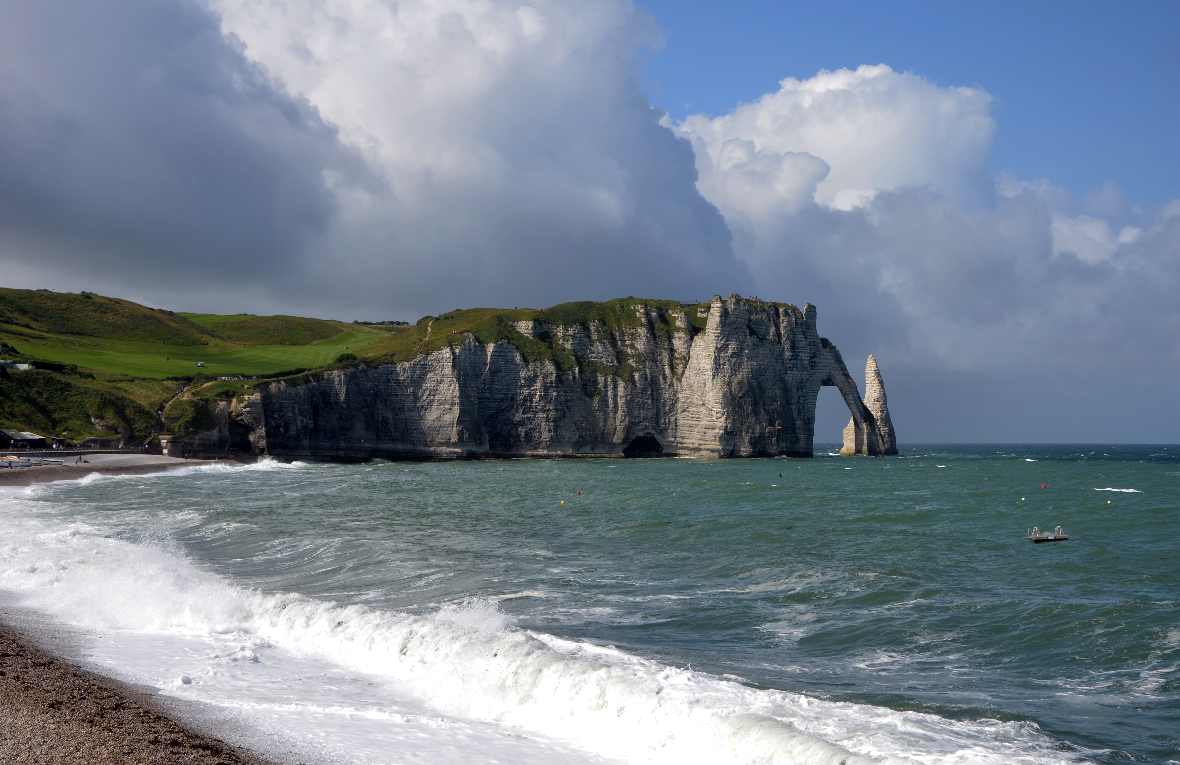 The Arche and the Aiguille of the cliffs of Etretat (Haute-Normandie, France)